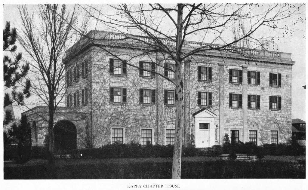 This photo was published by Phi Sigma Kappa fraternity in its quarterly magazine for members, and reproduced here in low resolution for Wikipedia at List of Phi Sigma Kappa Chapters and other usage. Kappa Chapter of Phi Sigma Kappa, at Penn State, small, from The Signet, Jan 1950, vol XLII, no 1, p15.jpg